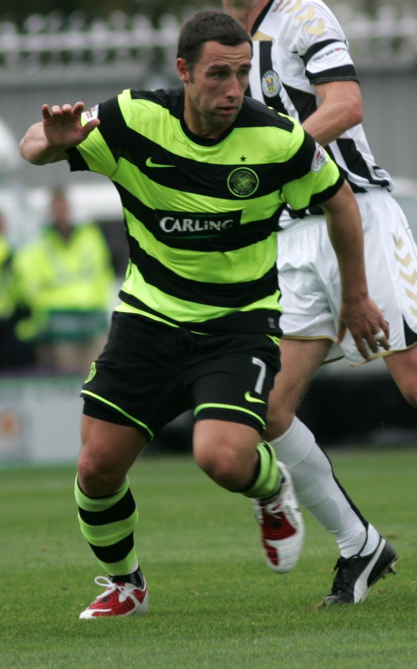 Scott McDonald, player of Celtic F.C.